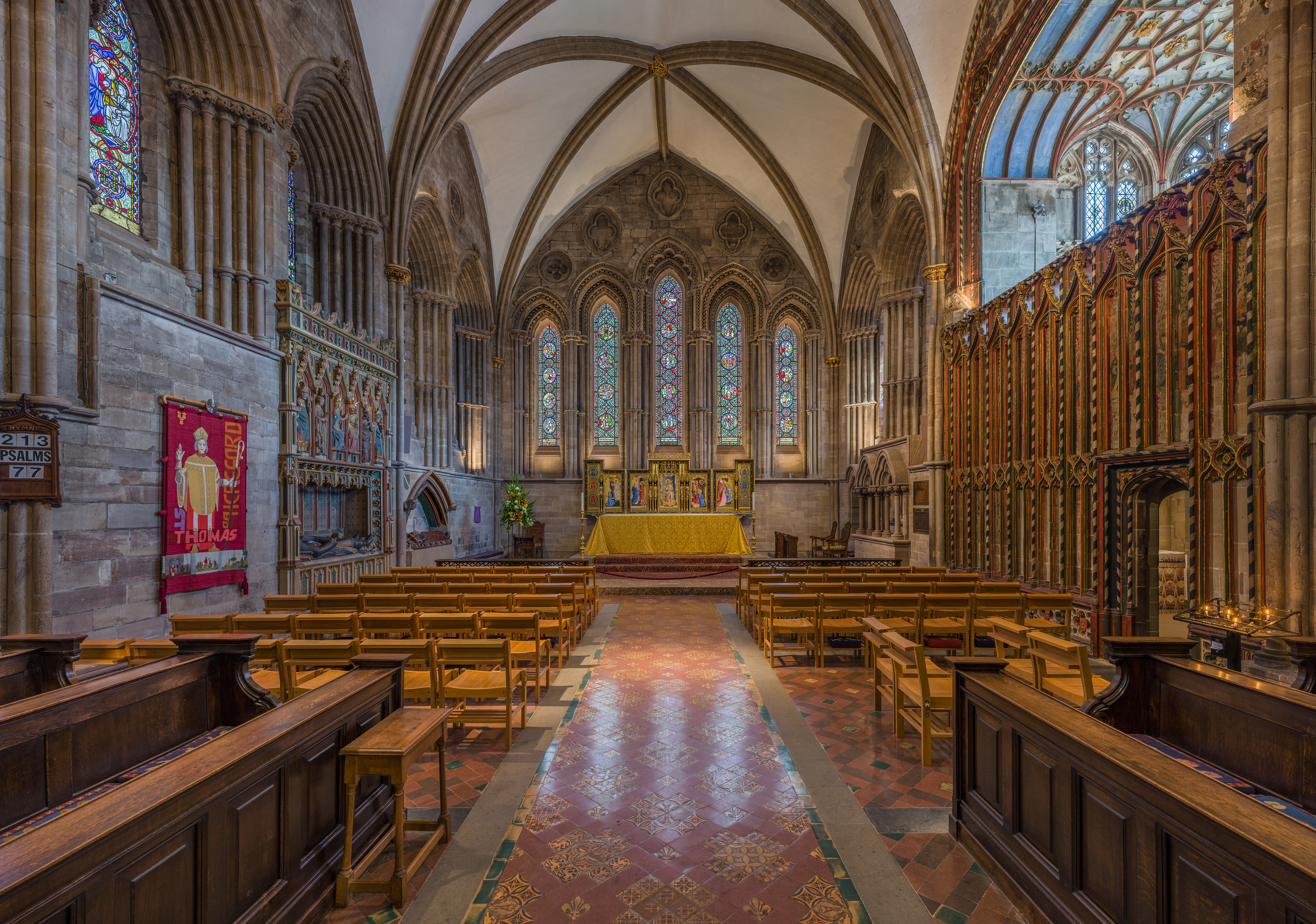 The lady chapel at Hereford Cathedral, Herefordshire, England.